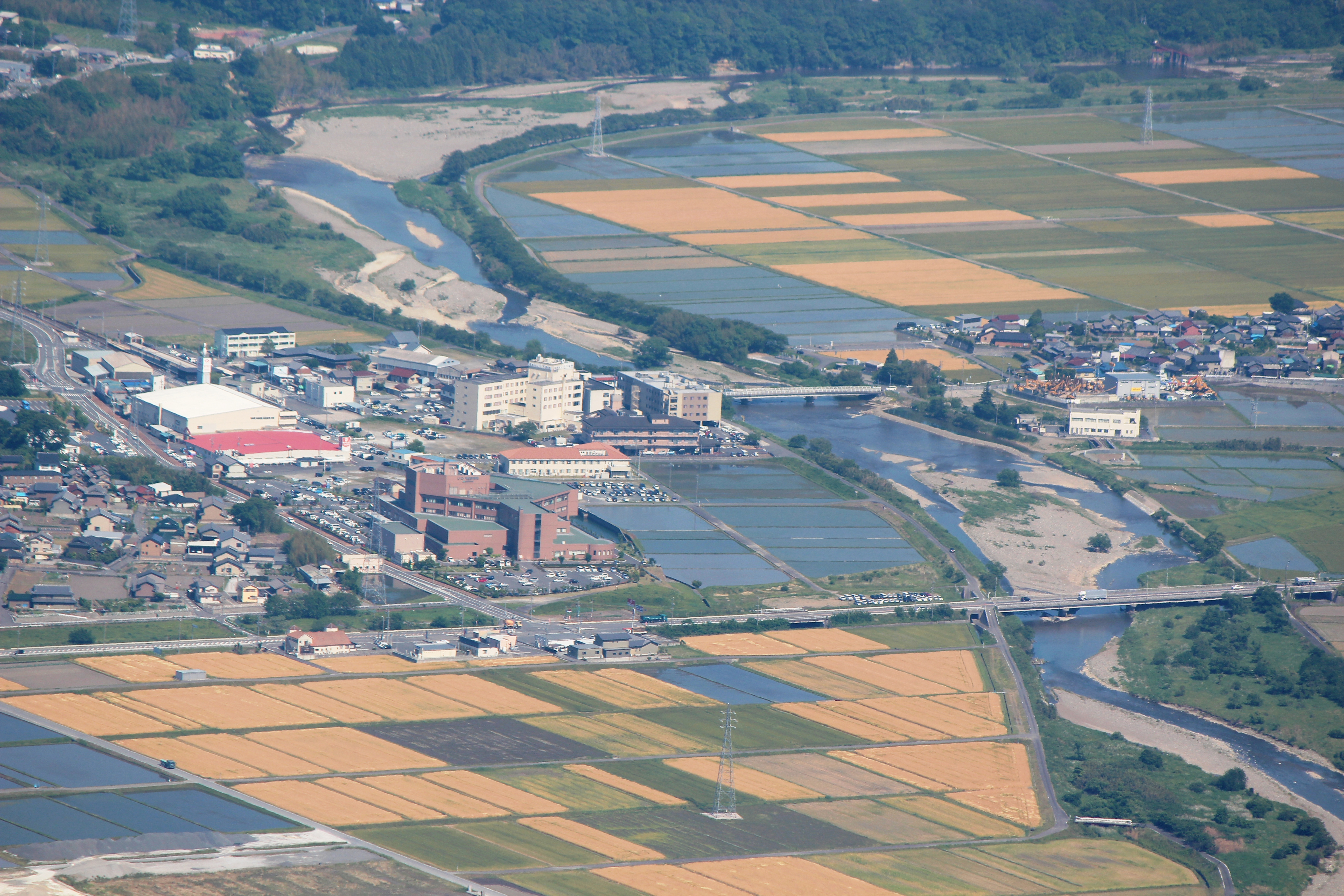 Hokusei Bridge over Inabe River seen from Mount Fujiwara, in Inabe, Mie prefecture, Japan.